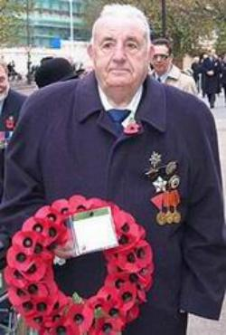 Јордан Цеков - Дане